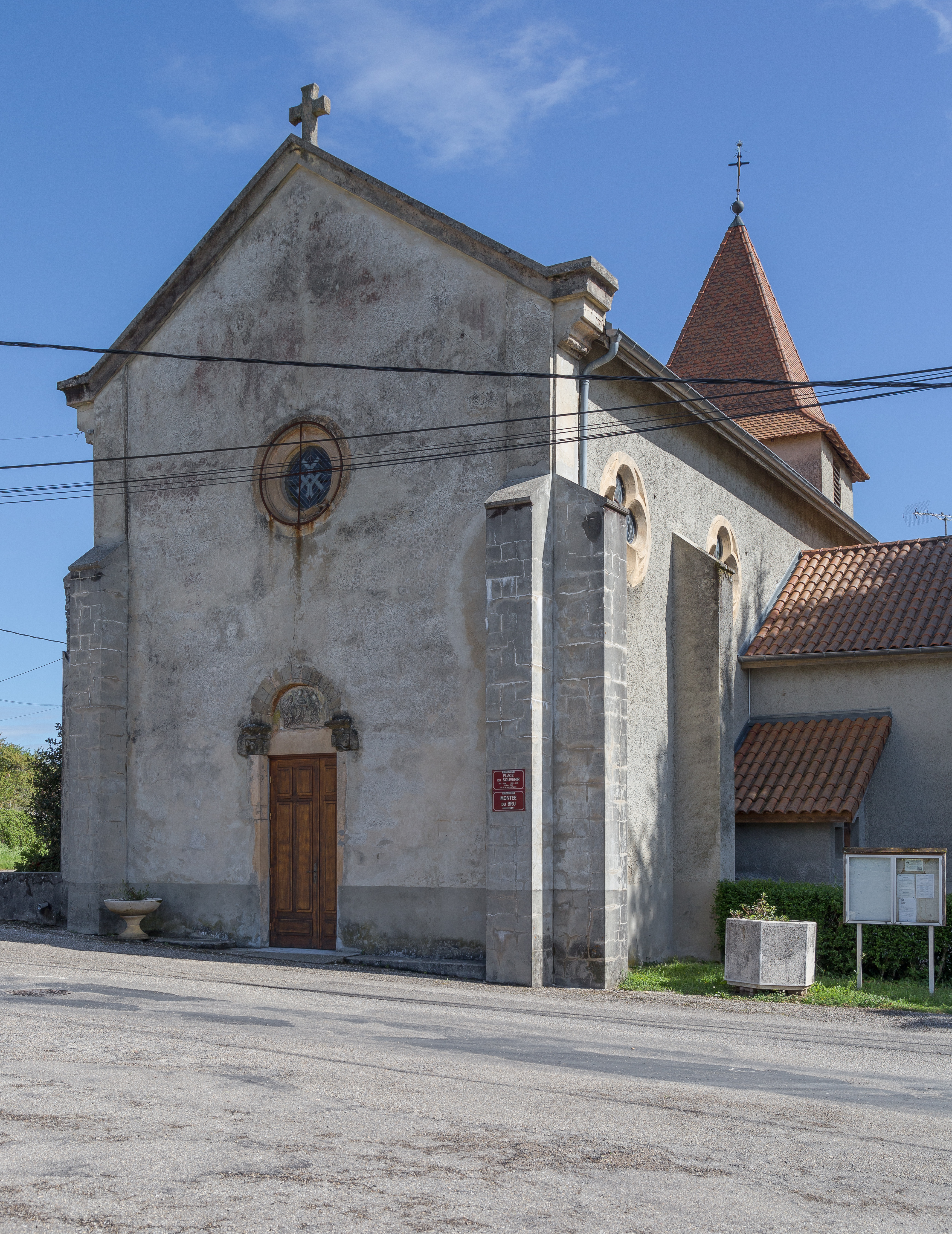 Saint-Genis Church, Crachier, Isère. The pediment from the southwest.